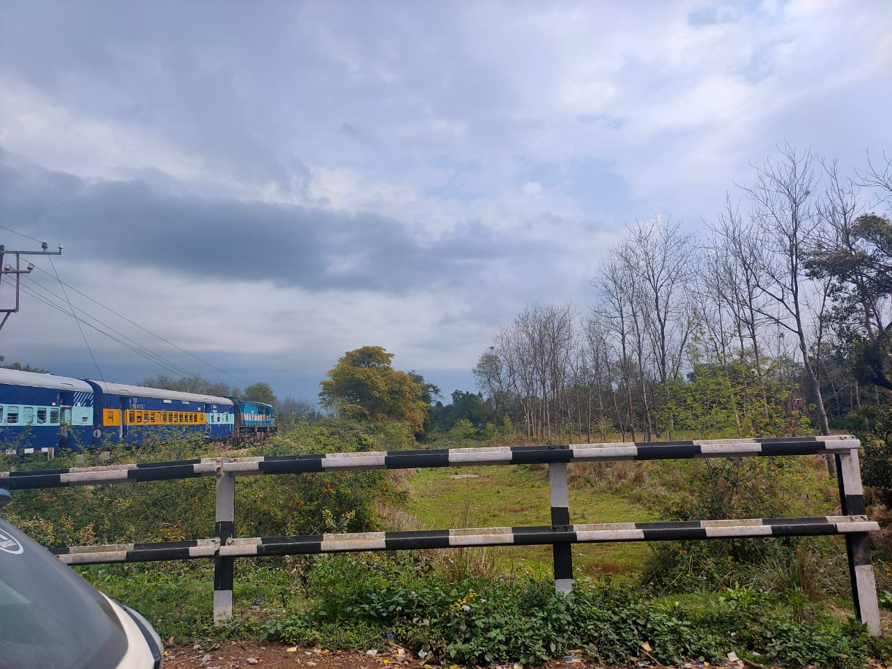 Less pollution and better living.